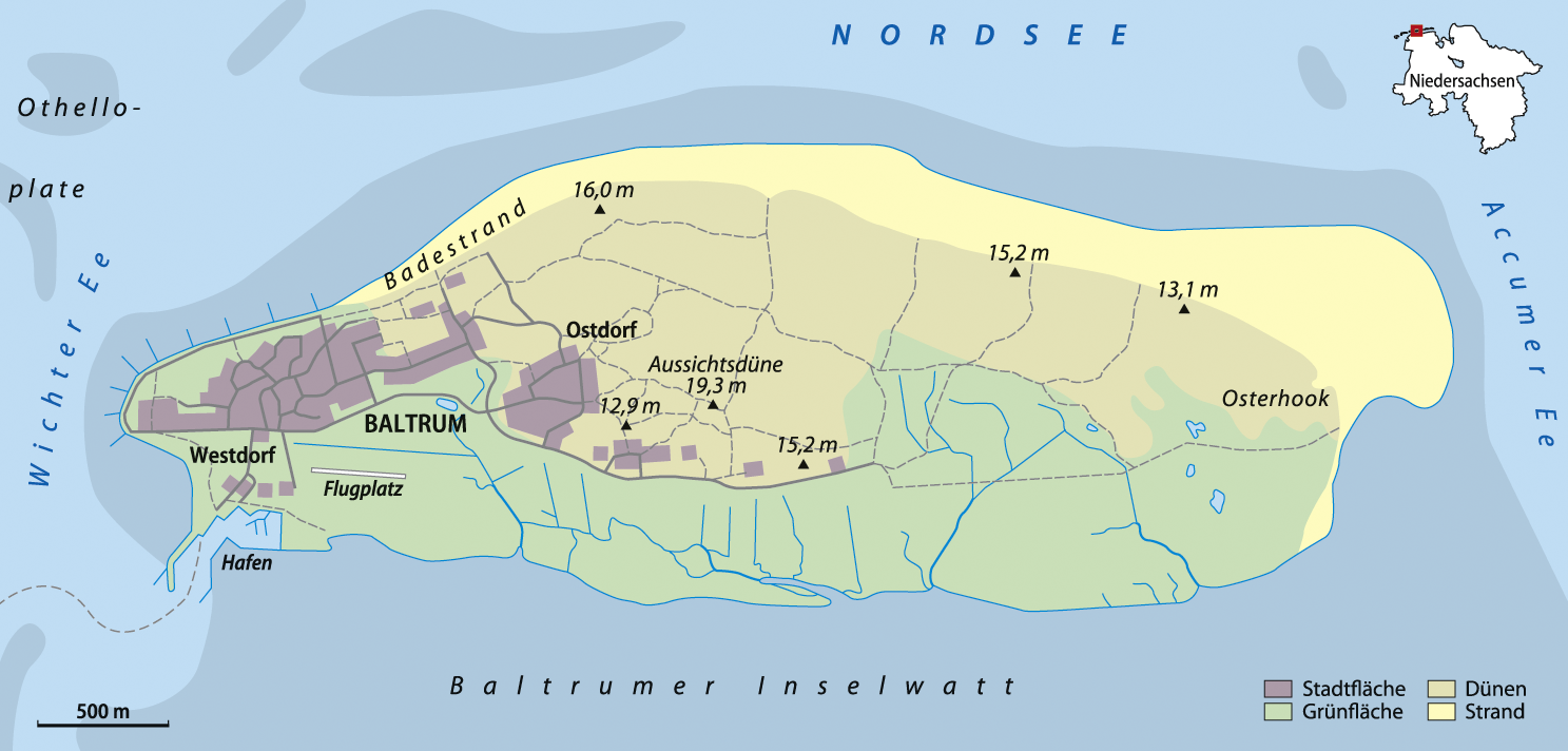 Map of Baltrum